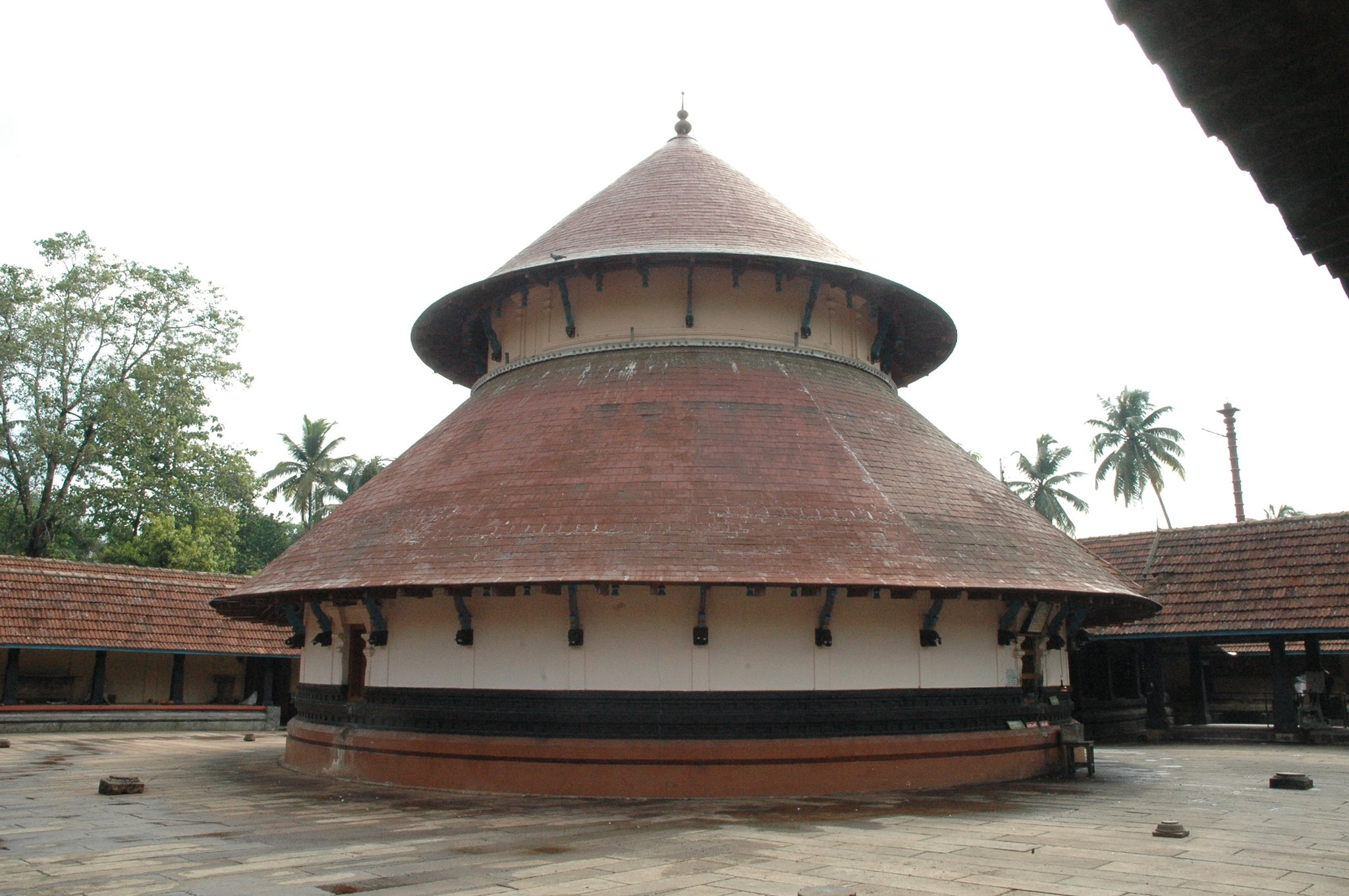 Thirumoozhikkulam